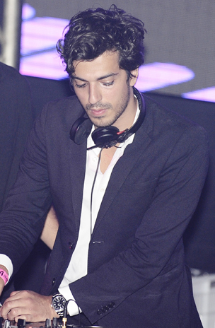 Brodinski and Gesaffelstein playing at Amnesia Ibiza - 17 July 12 (crop)